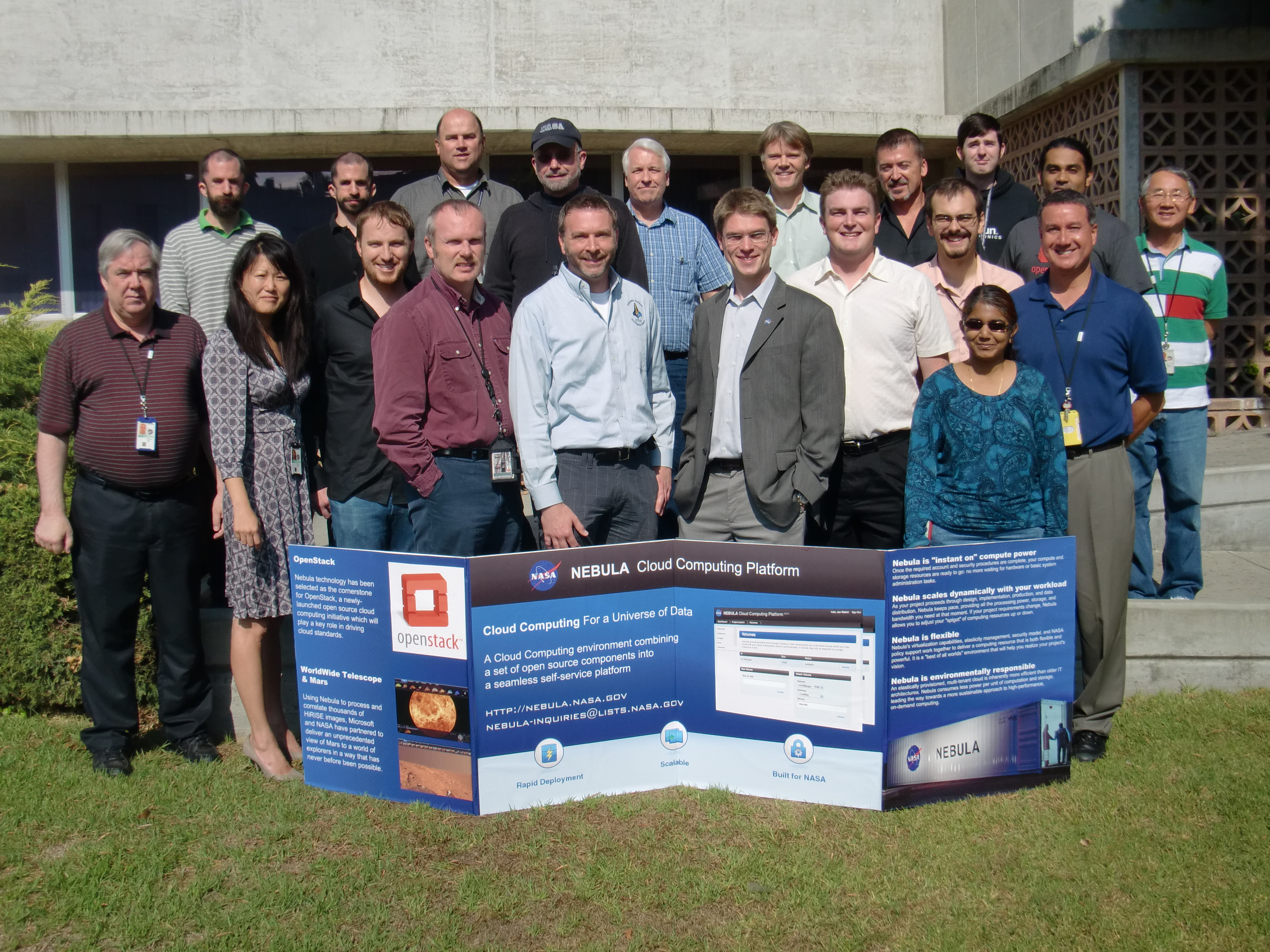 Group photo of project Nebula Team located at NASA Ames Research Center in 2010.